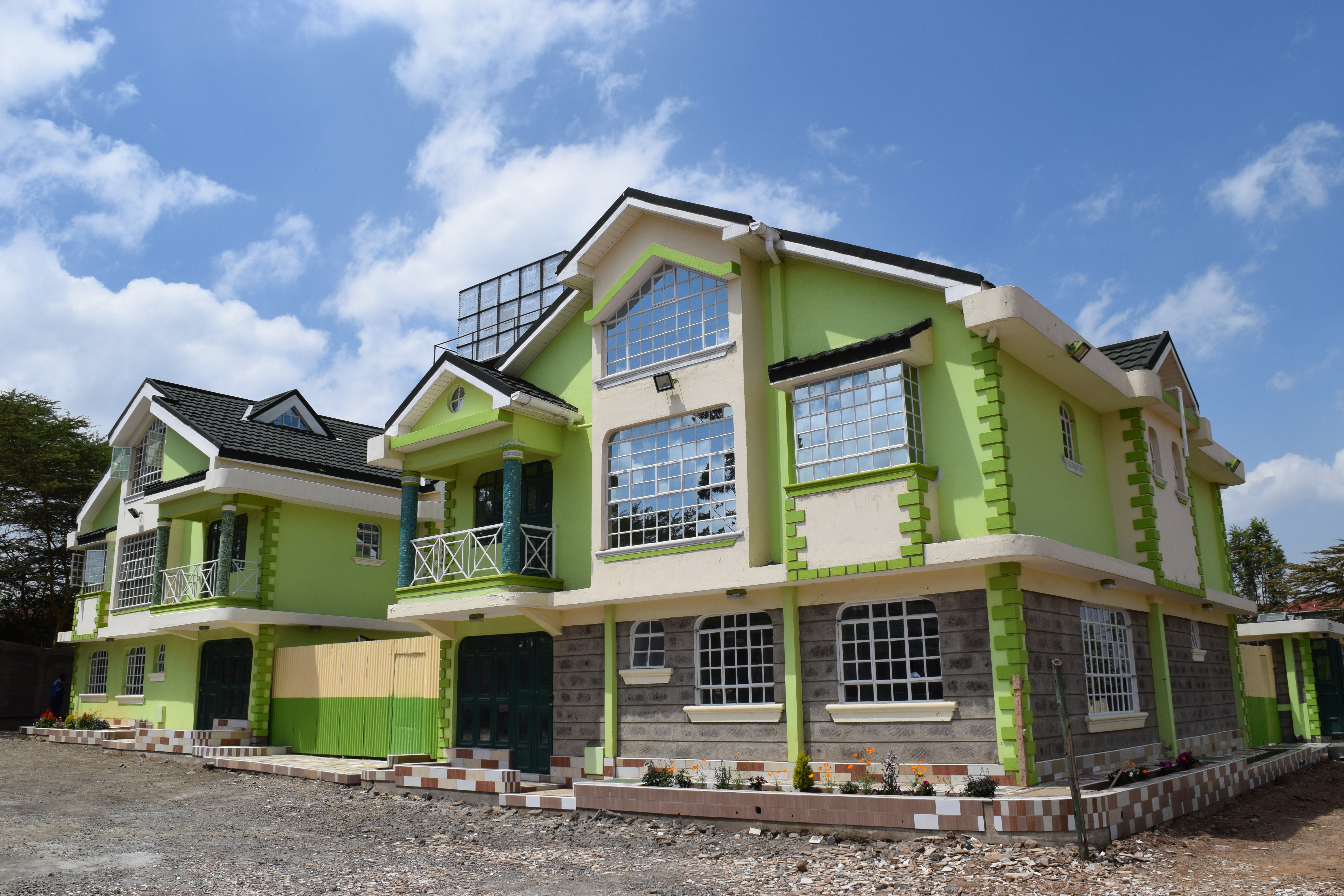 Rongai Purple Campus (Primary Day School)